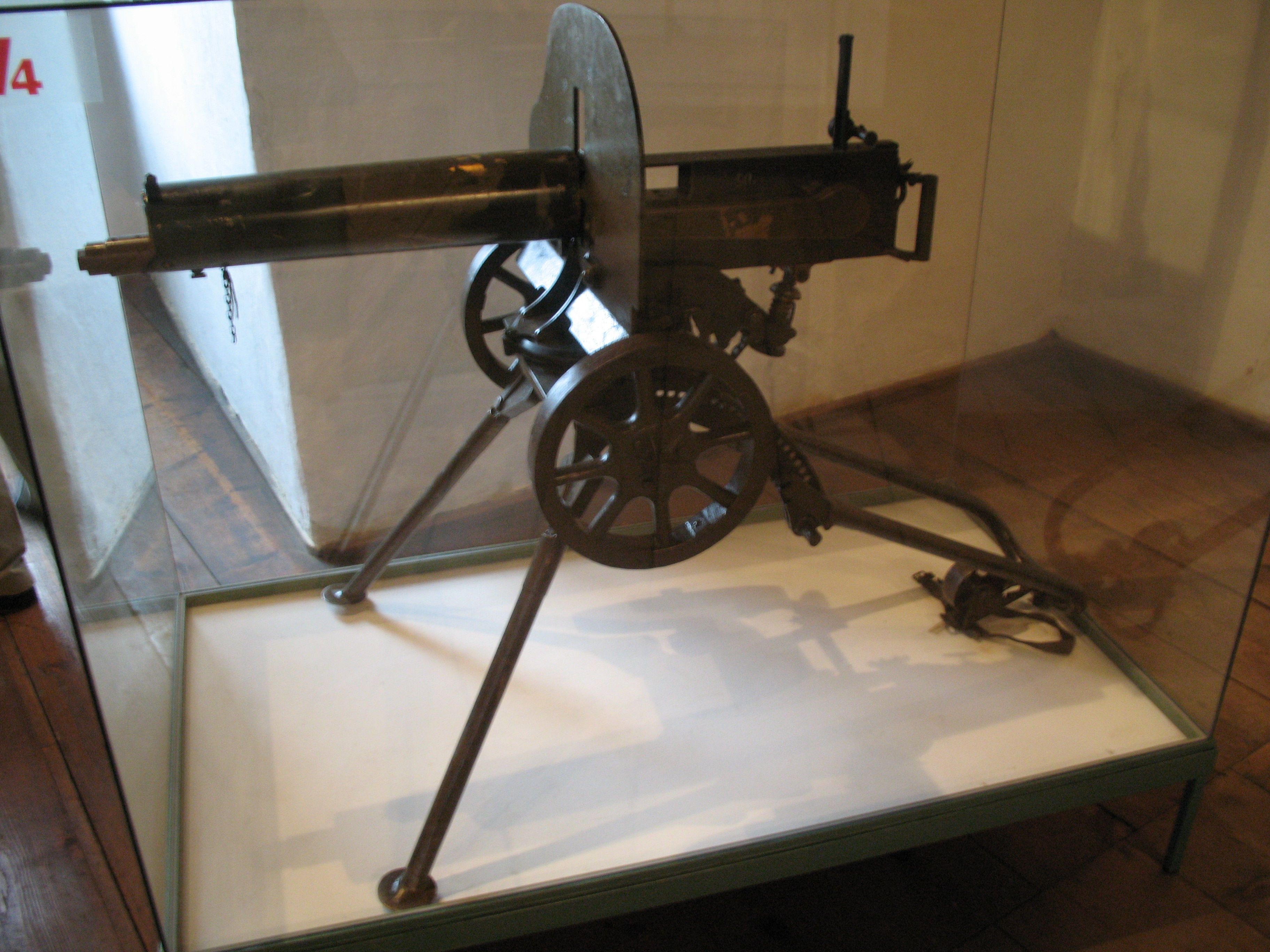 Machinerifle; High Fortress, Salzburg, Austria